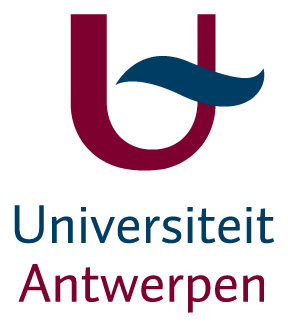 University of Antwerp